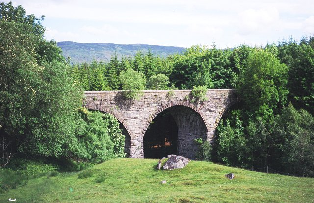 Glendhu Viaduct, near Ardchyle, on the disused Caledonian Railway line from Stirling to Oban